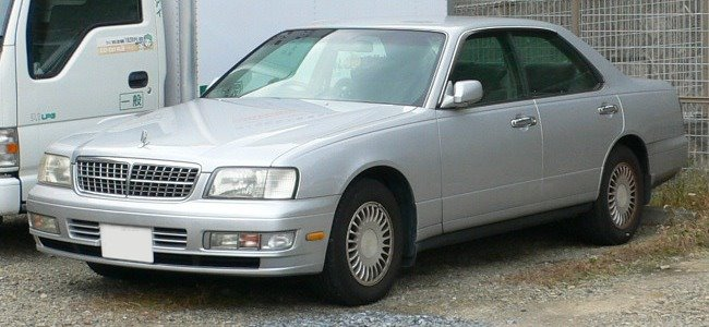 9th generation Nissan Cedric (1997 - 1999)